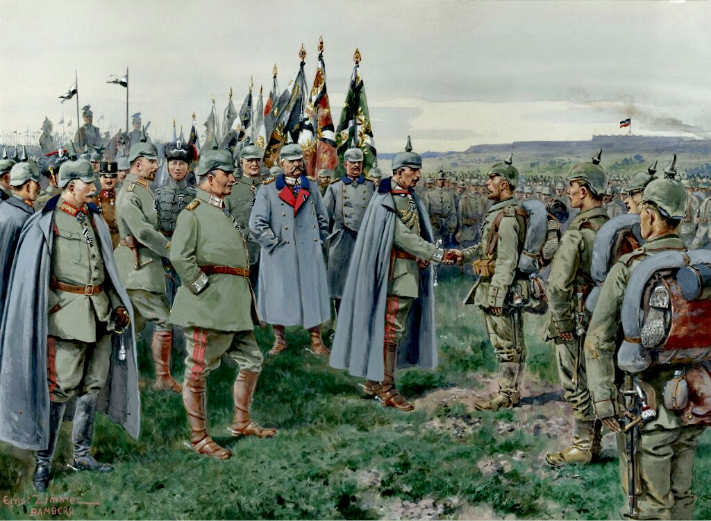 The Emperor presents the Iron Cross to the Heroes of Nowo-Georgiewsk